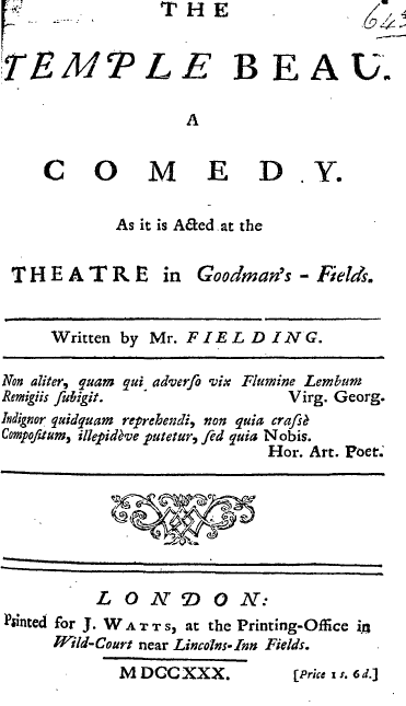 Fielding, Henry. The temple beau. A comedy. As it is acted at the theatre in Goodman's-Fields. London: Printed for J. Watts, 1730.